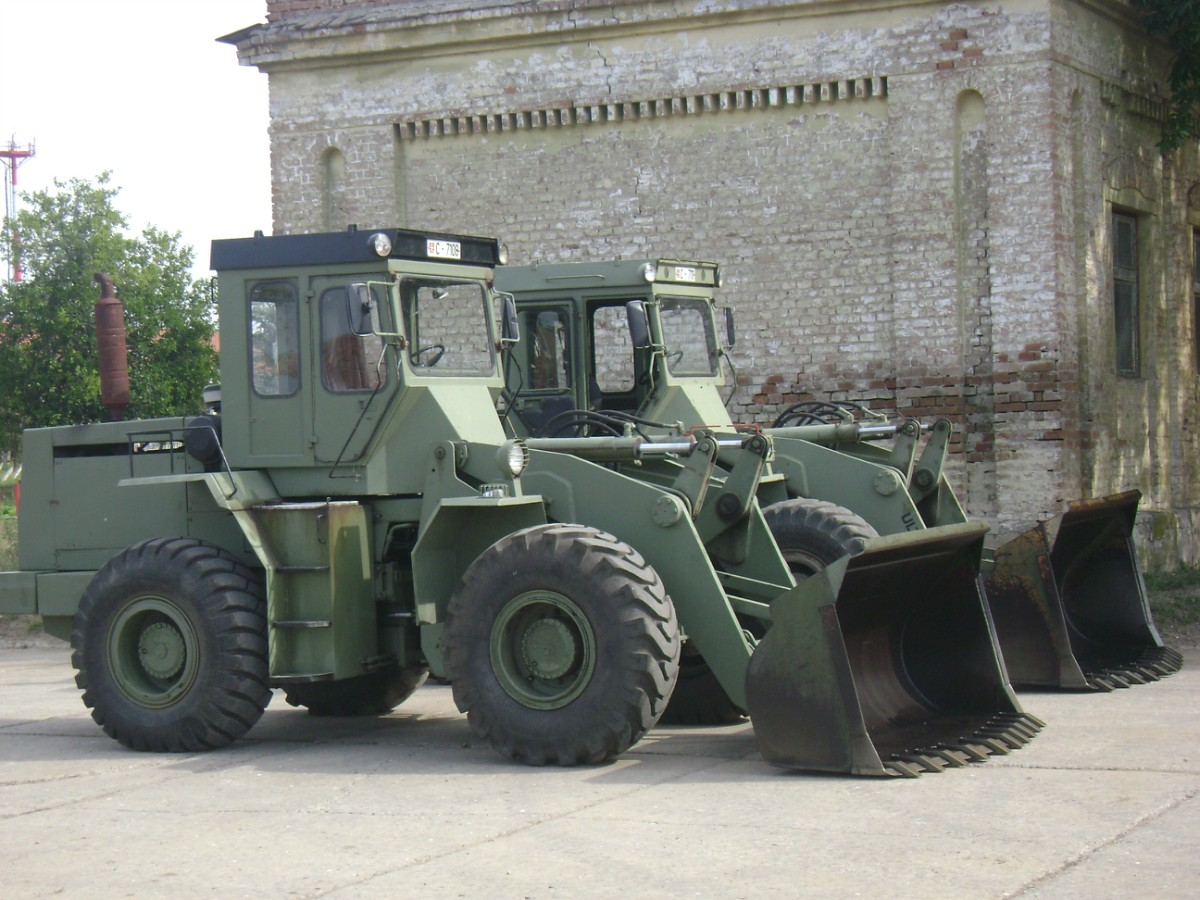 Serbian army ULT-160C front end loaders.